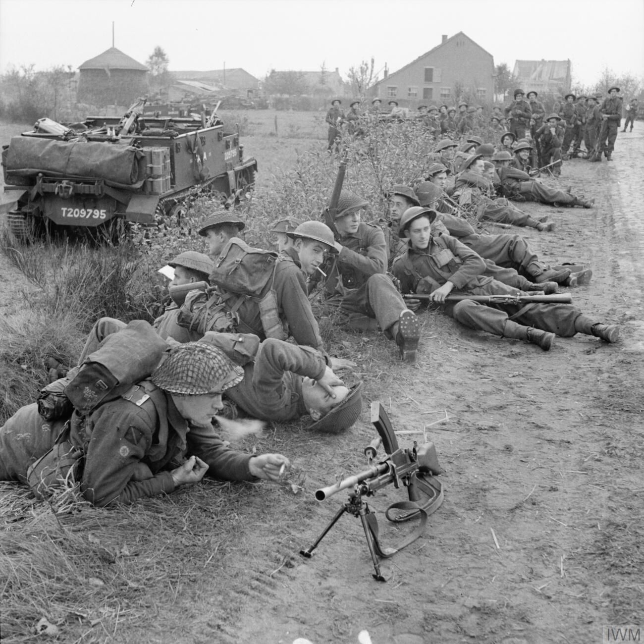 Infantry and carriers of 8th Royal Scots pause during the attack by 15th (Scottish) Division on Tilburg, 27 October 1944.